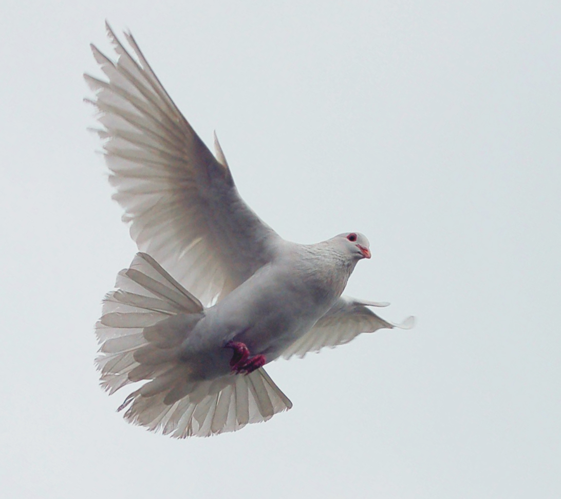 Barbary Dove